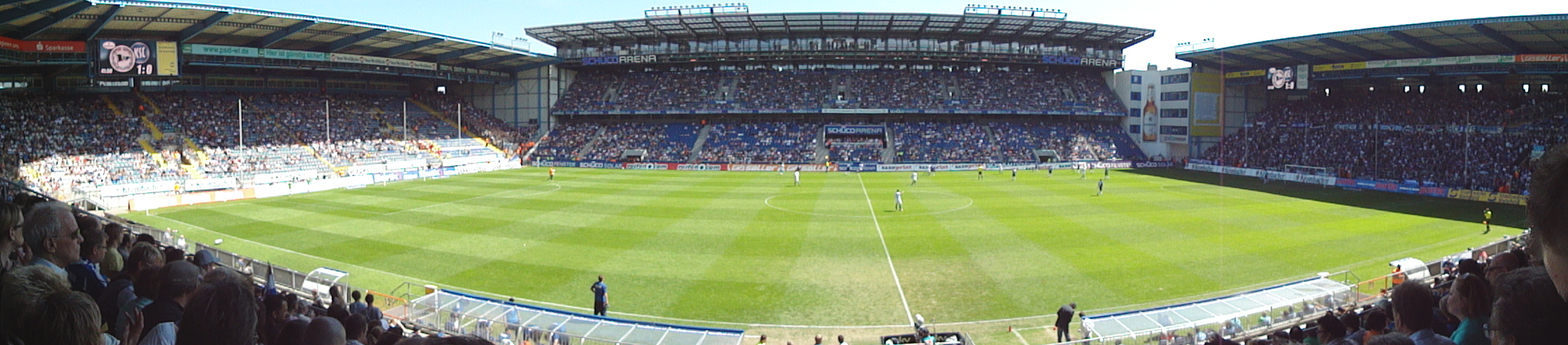 The SchücoArena in Bielefeld during the match Arminia Bielefeld against Karlsruher SC on May 8th 2011 from the view of the west-stand.